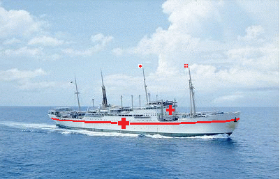 Jutlandia as hospitalship, drawn after the Danish stamp